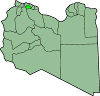 Locator map for Tarhunah District in Libya